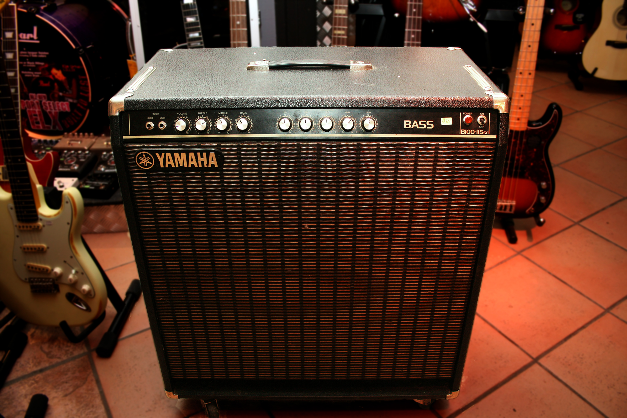 YAMAHA B100-115 SE (B100 115II) Bass amplifier